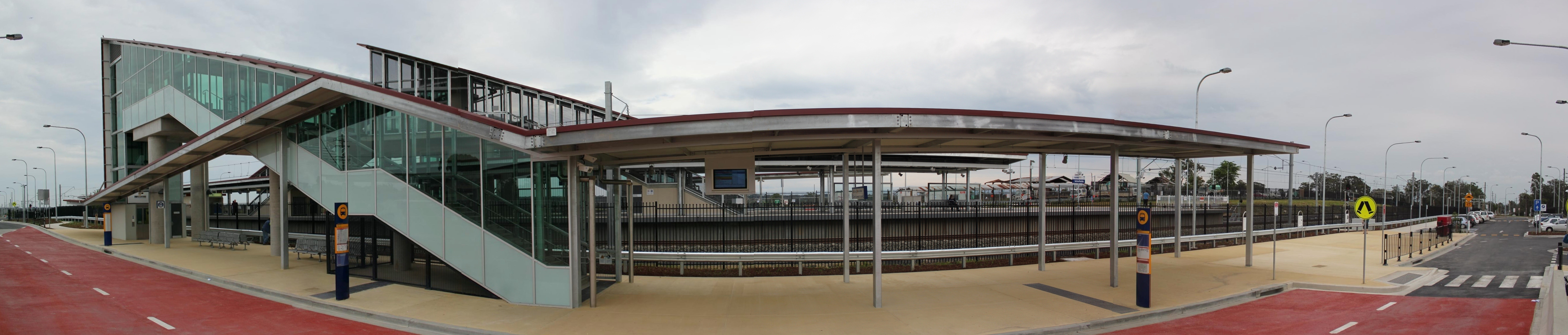 Schofields Station Eastern side